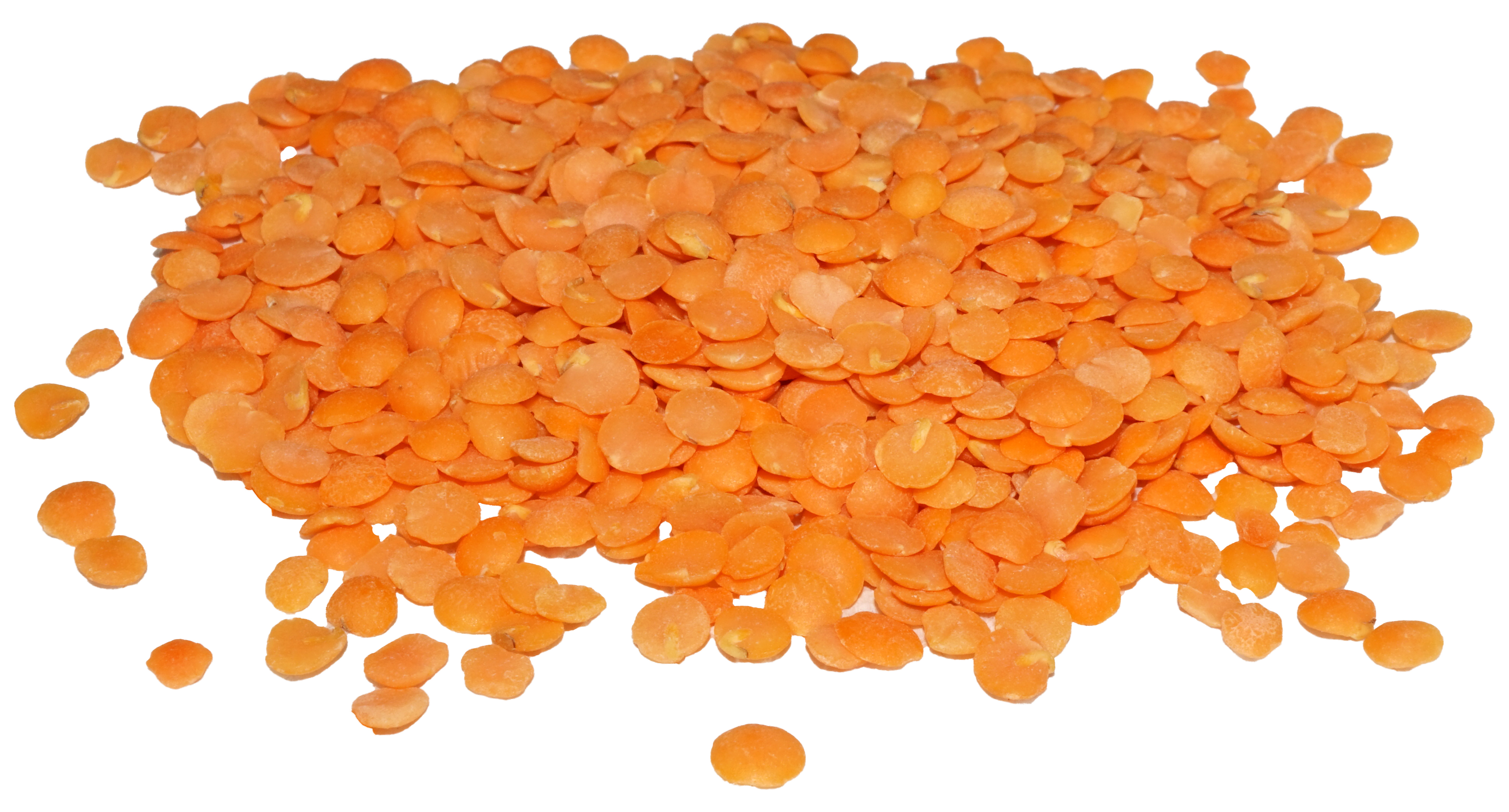 Red lentils by Gogreen.